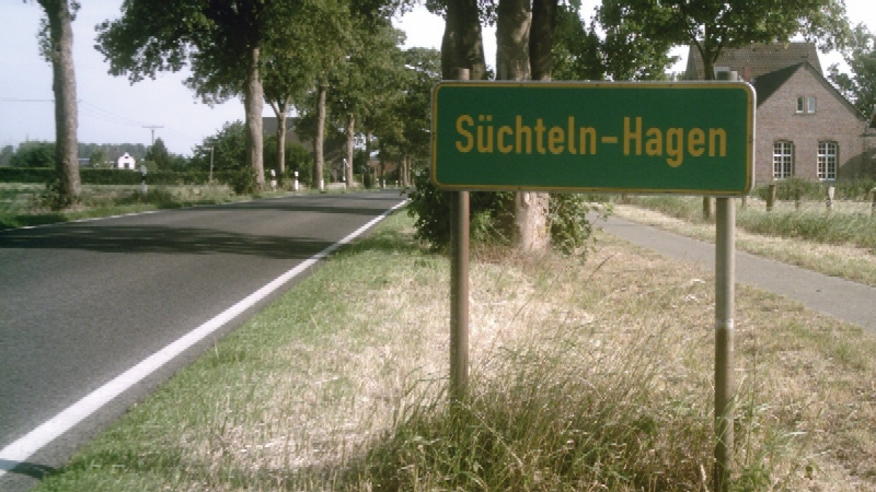 Northern city limit sign in Hagen, Viersen, Germany